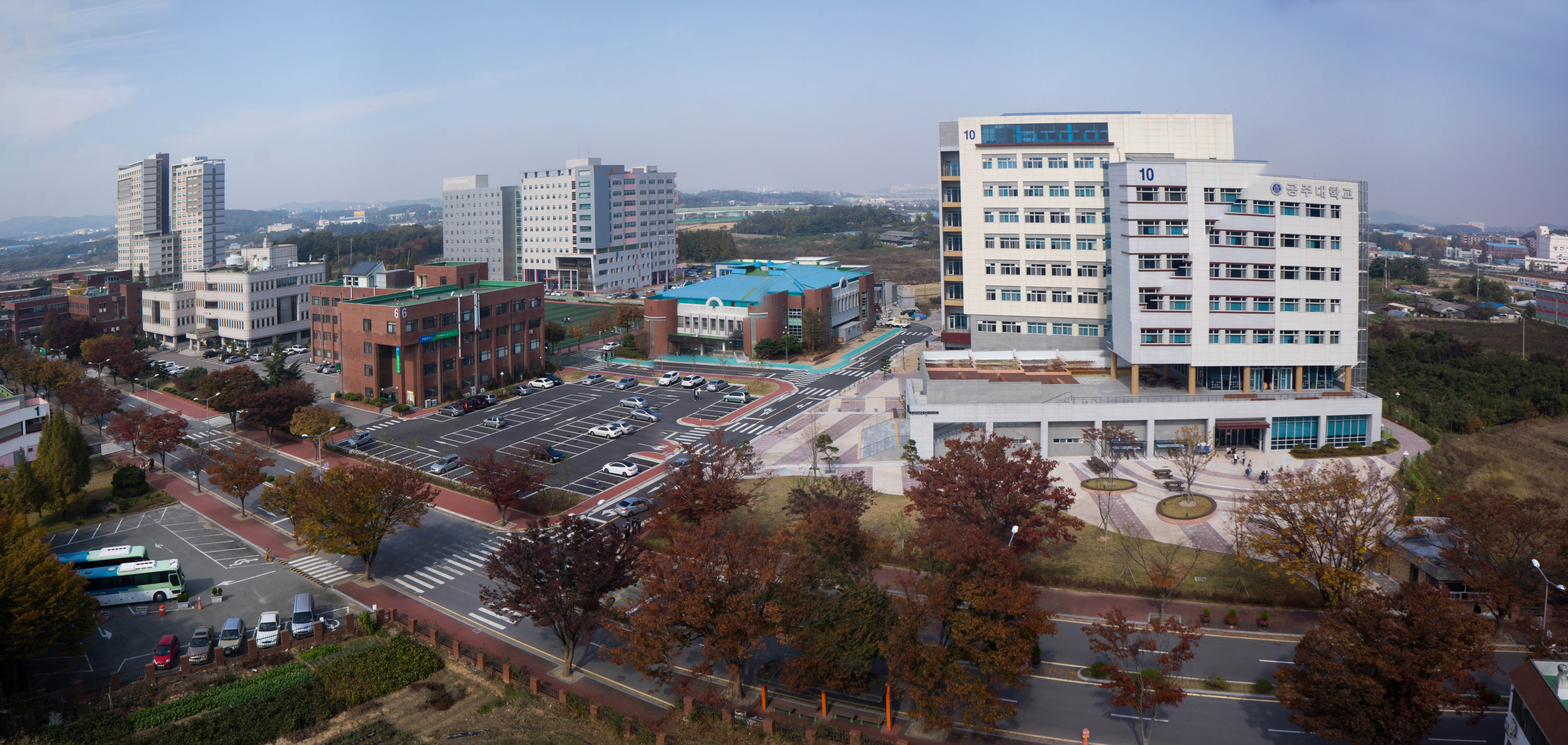 Kongju National University Cheonan Campus